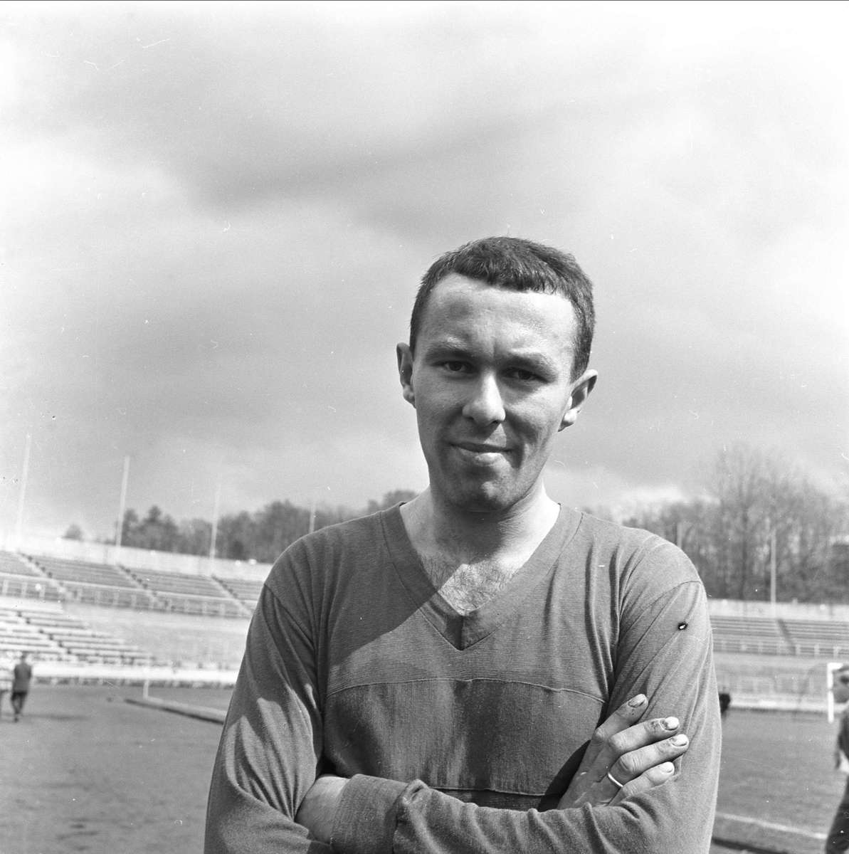 Norwegian soccer player Leif Eriksen (born 1940), photo in Oslo, May of 1963. From the Dagbladet archives (6 x 6 ), donated to Norsk Folkemuseum in 2003.